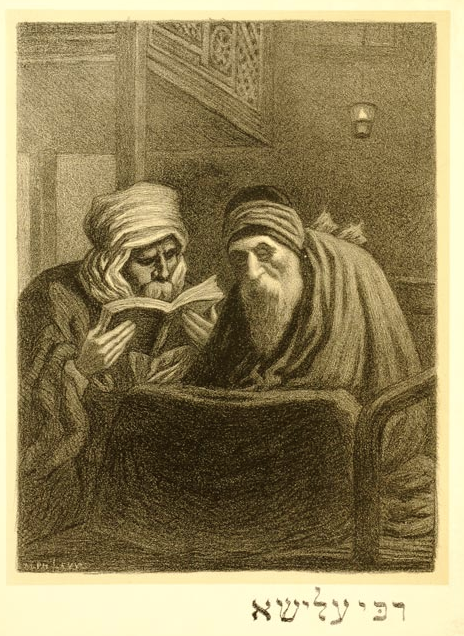 Rabbi Elischa by Alphonse Lévy, lithographic print from L'Estampe moderne, vol. I, Paris, F. Champenois.